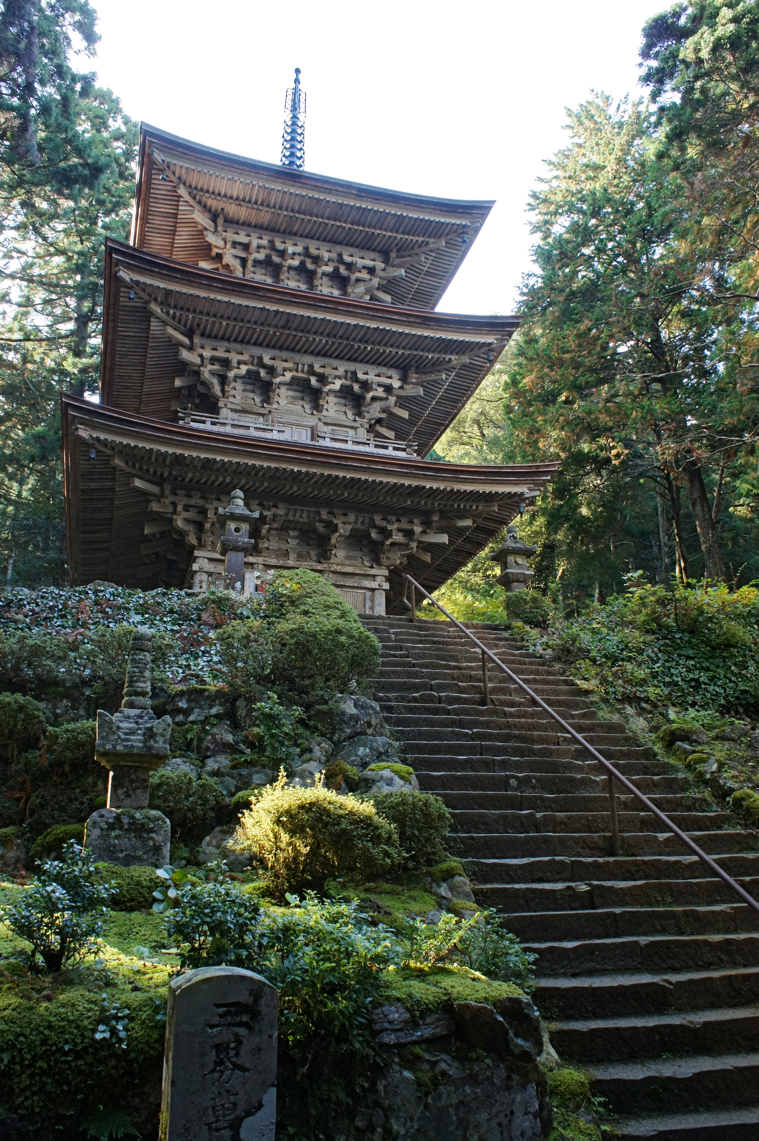 Pagoda of Myōtsū-ji Buddhist temple (Japan's National Treasure) in Obama, Fukui prefecture, Japan. It was built in 1270.